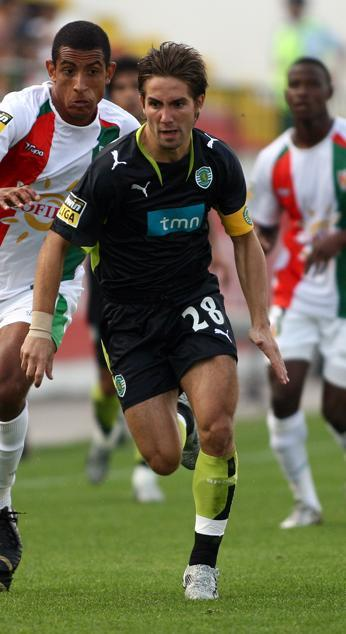 João Moutinho. Image cropped from original at flickr.